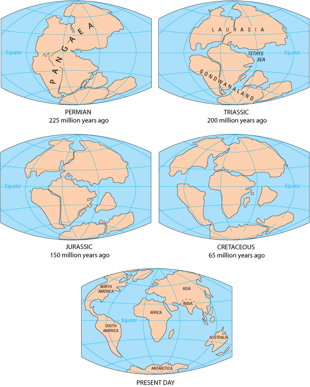 The breakup of Pangaea and motion of their continents to their present-day positions